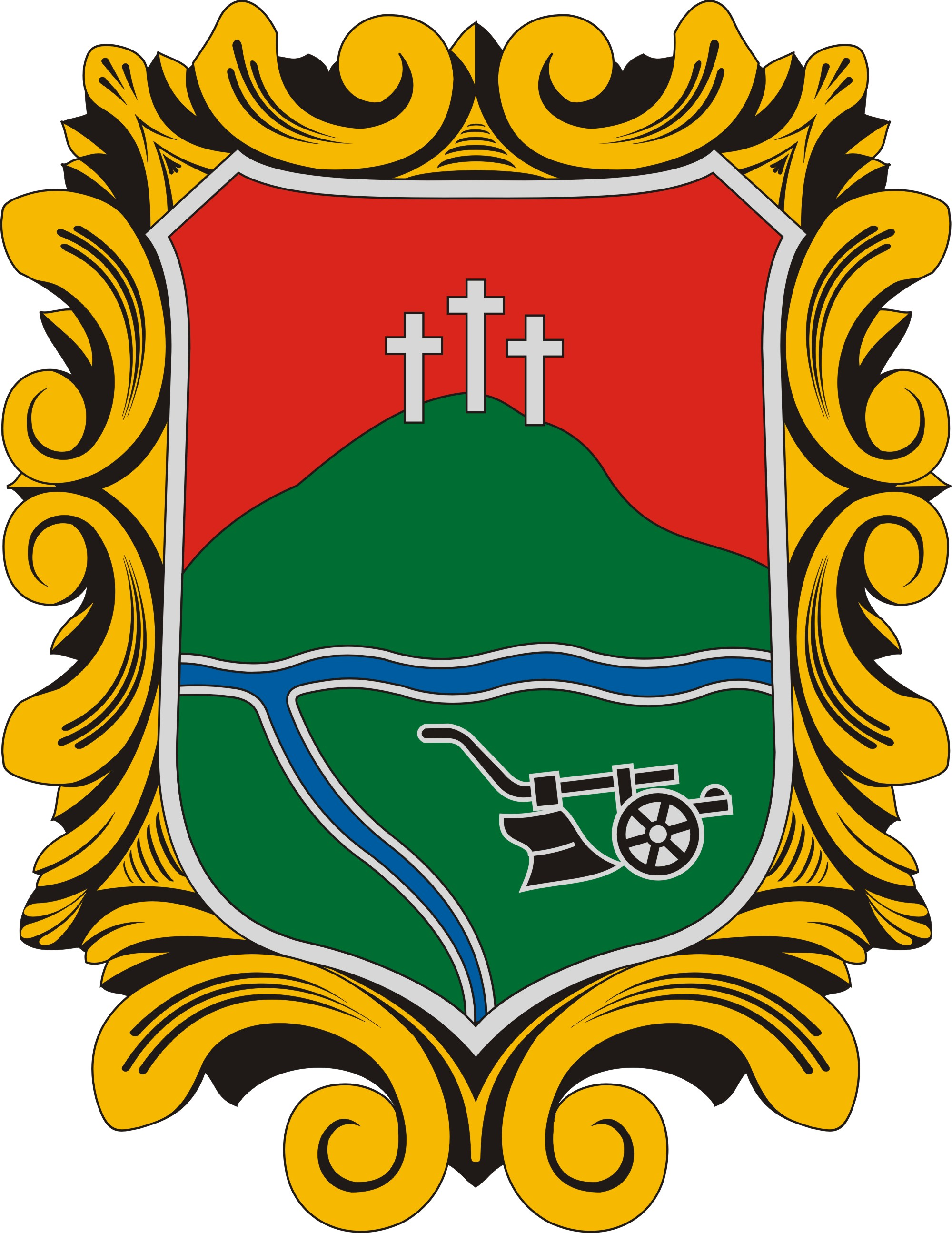 Coat of arms of Mikófalva, Hungary